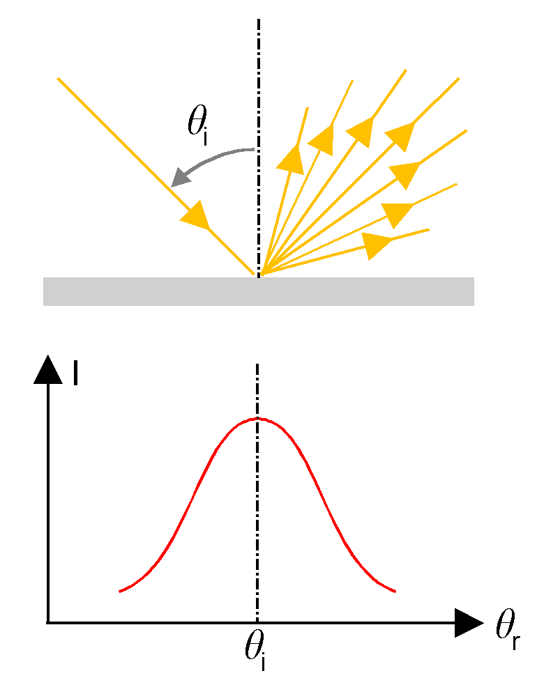 Scattering of the incident light beam about the specular direction generating what is called "haze". The components reflected in the specular direction are considerably attenuated compared to the case of a purely specular reflection without scattering. The scattering effects a reduction of glare (anti glare treatment).